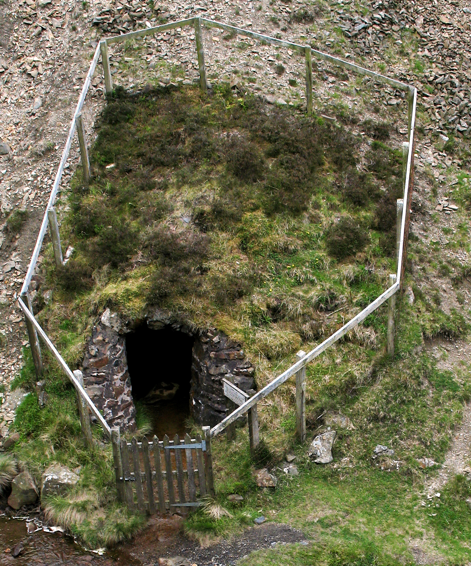 View of entrance to Hartfell Spa - Moffat hills